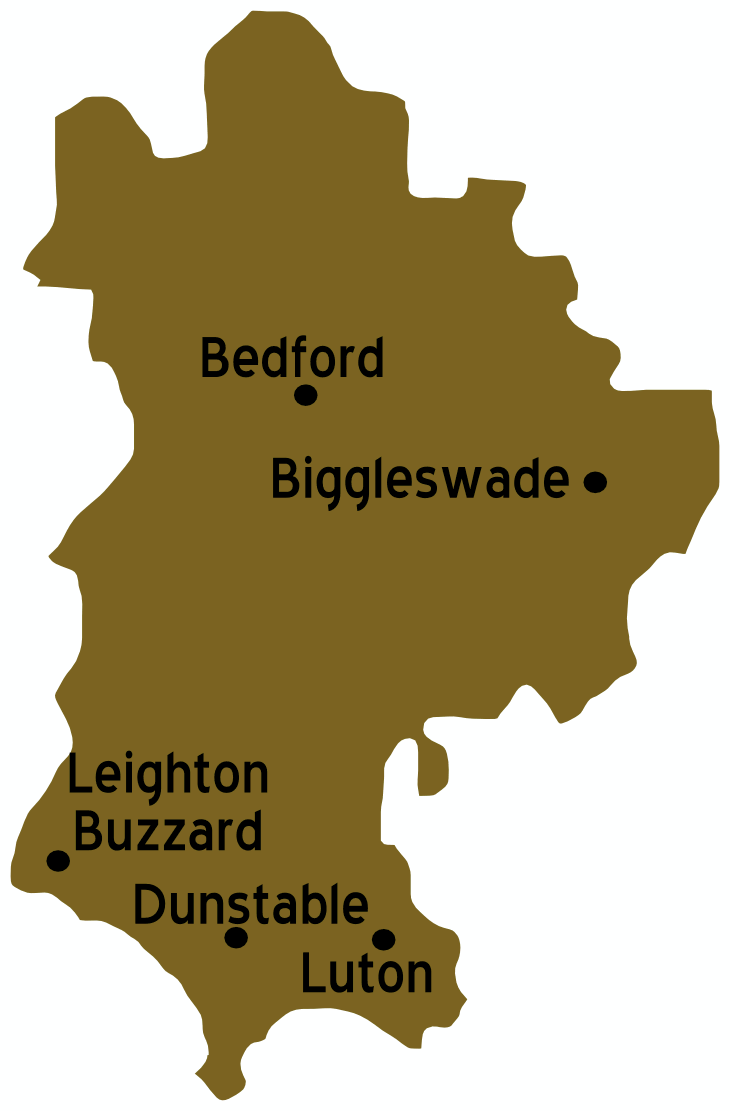 Map of Bedfordshire map: United Kingdom Source: :Image:UK map.svg